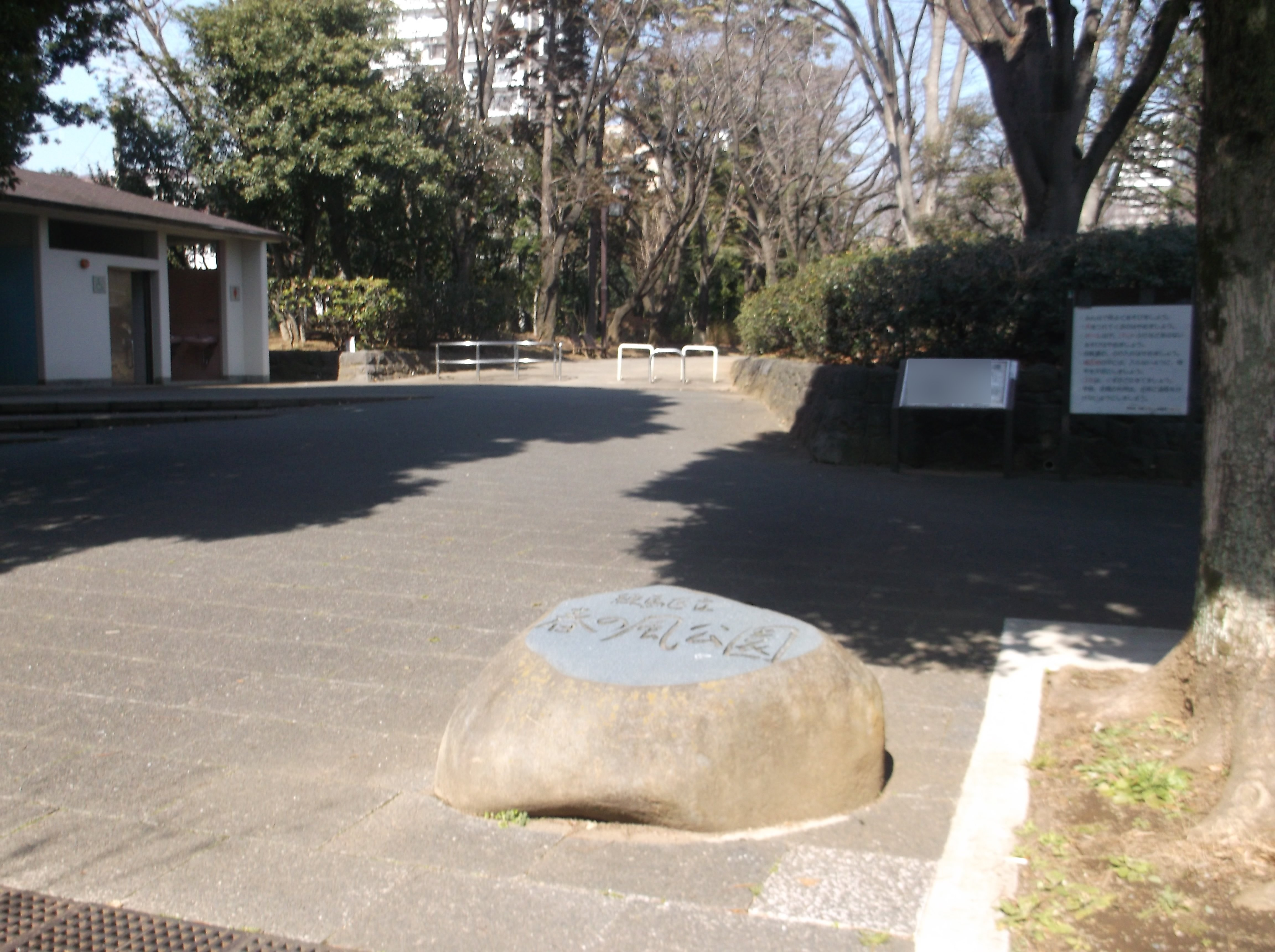 A photo of "Haru no Kaze(spring's wind) Park",Hikarigaoka,Nerima-ku,Tokyo,Japan.